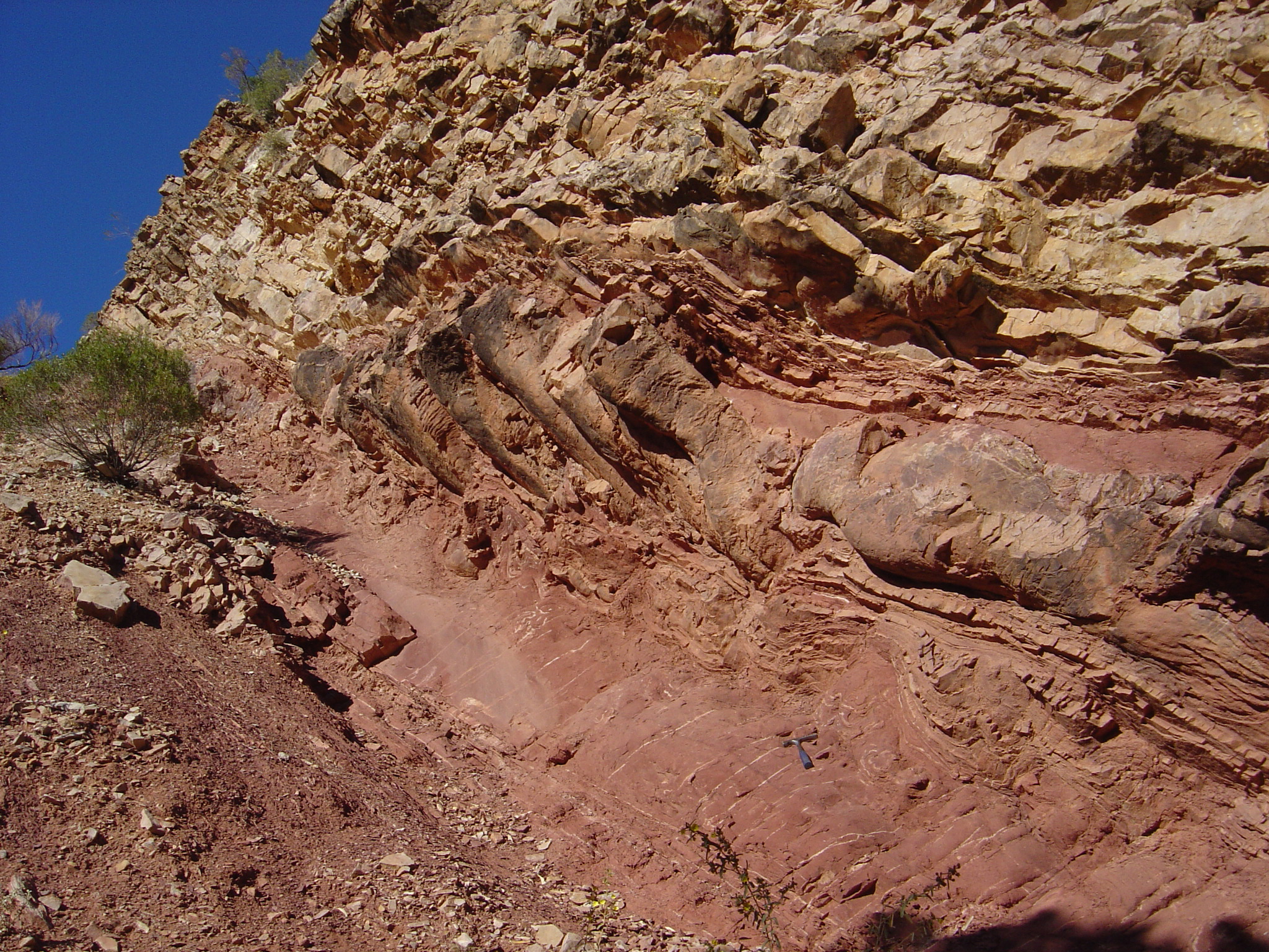 fossil soils (massive red beds) on horizons for Ediacaran fossils in Brachina Gorge, South Australia